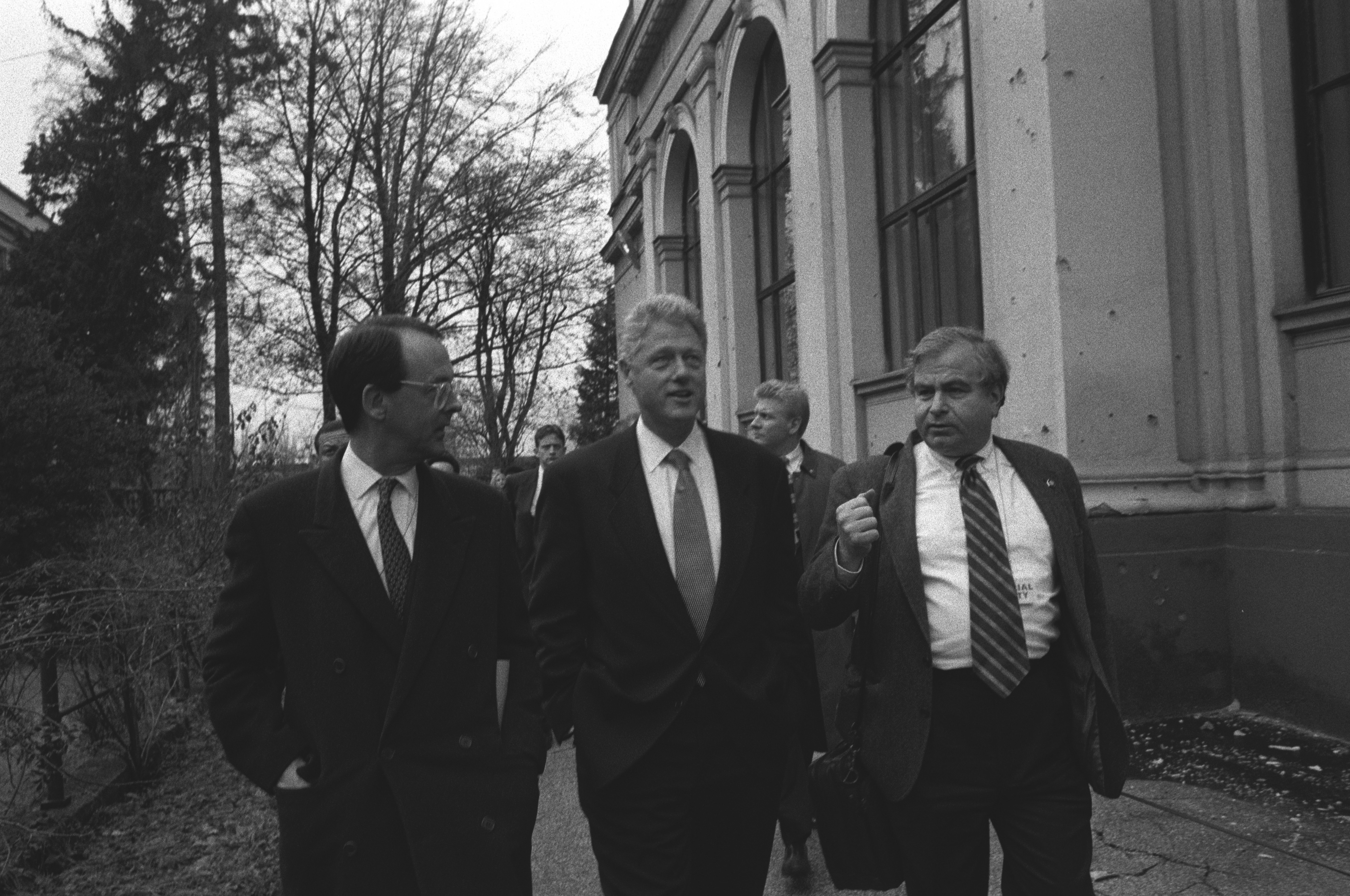 December 22, 1997: President Clinton walks with National Security Advisor Sandy Berger and White House Chief of Staff Erskine Bowles outside at the National Museum in Sarajevo. (Credit: William J. Clinton Presidential Library) Hosted by the Clinton Library and the Clinton Foundation, the document release was spearheaded by CIA’s Historical Review Program (HRP), which identifies, collects and produces historically relevant collections of declassified materials. The Bosnia collection—the youngest ever released in HRP’s 20-year existence—is available online at A video recording of the symposium is available at